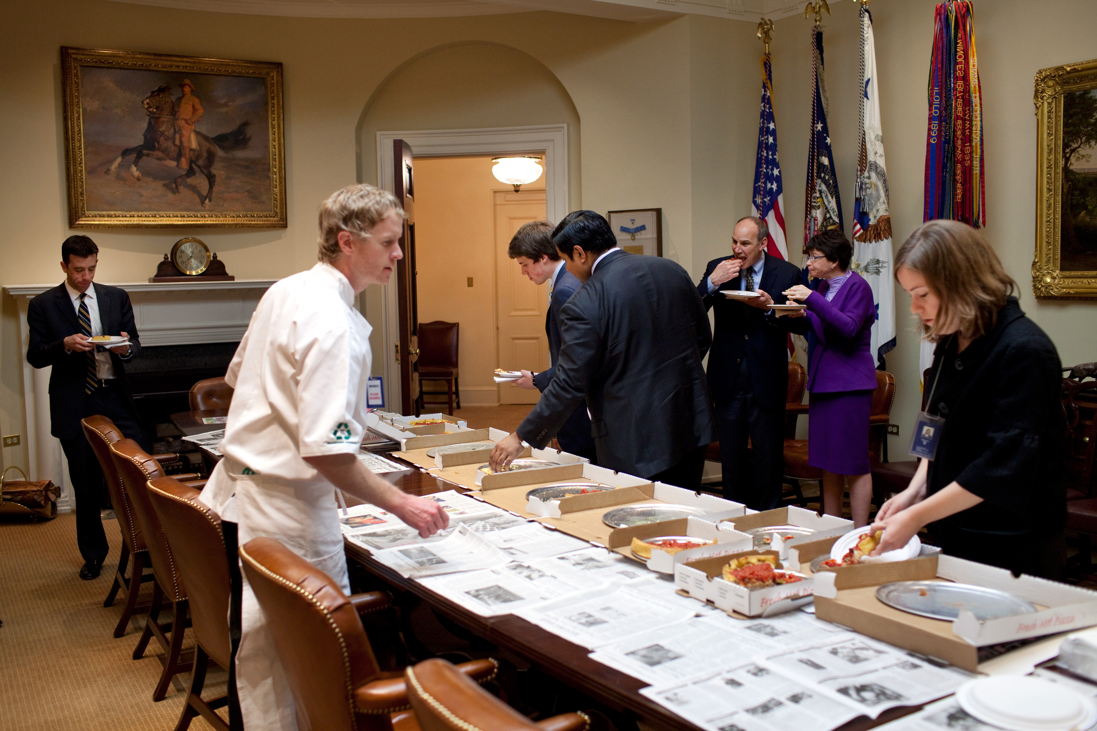 White House staff join a pizza tasting gathering April 10, 2009, in the Roosevelt Room at the White House. Official White House Photo by Pete Souza.